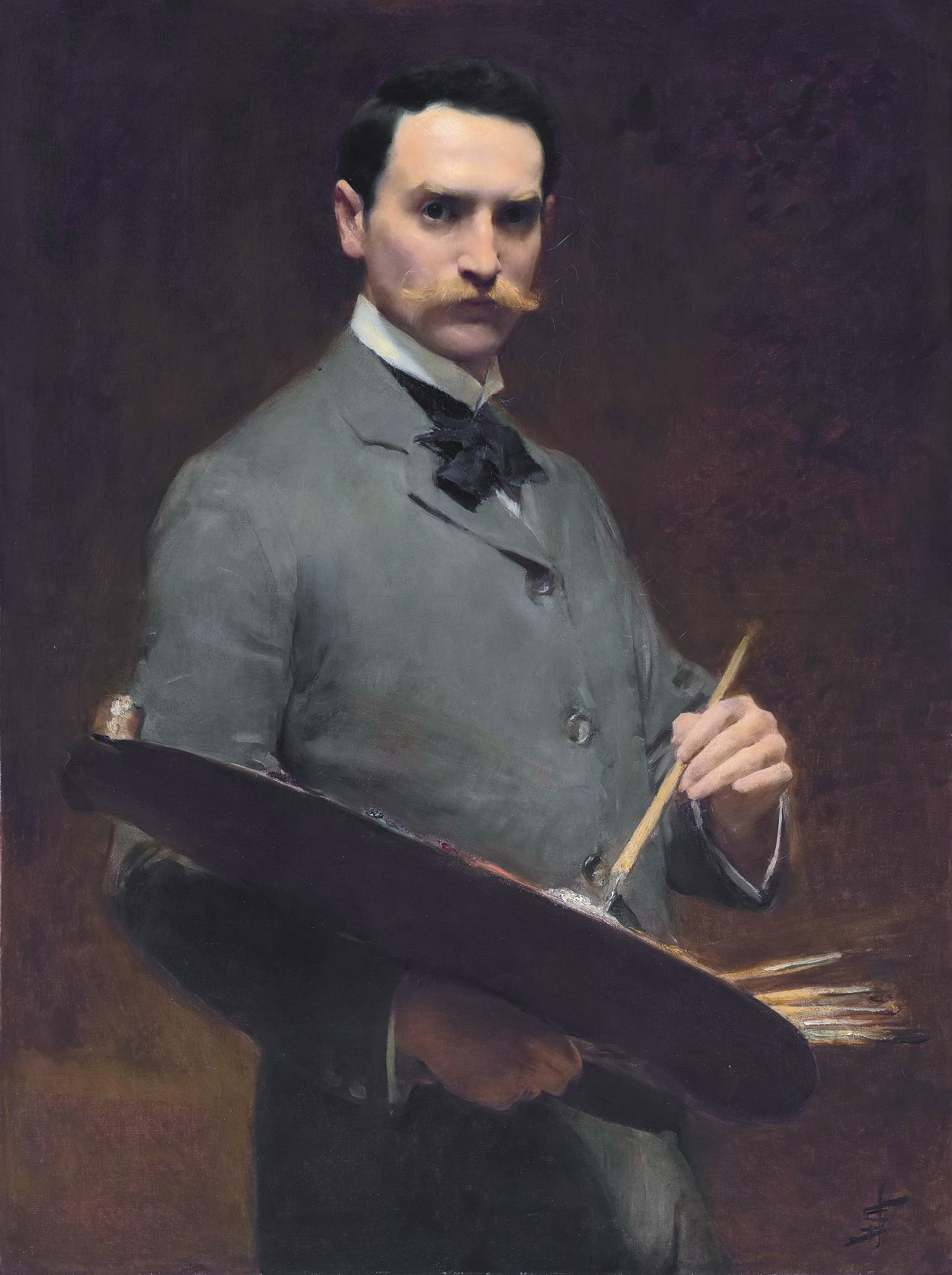 Self-portrait oil on canvas 101.6 x 76.2 cm signed b.r. circa 1896